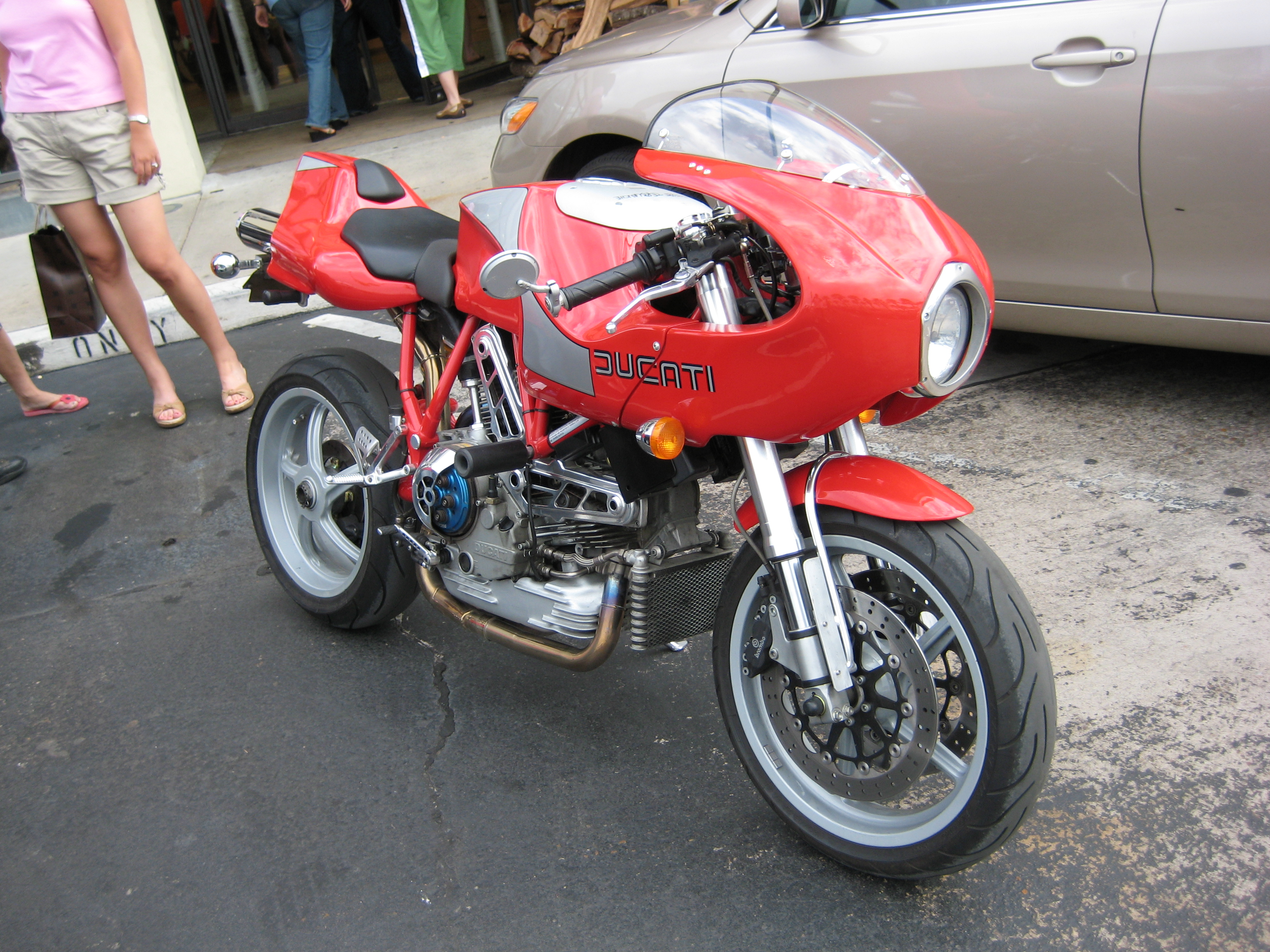 Ducati 900 MHe (Mick Hailwood evolution)